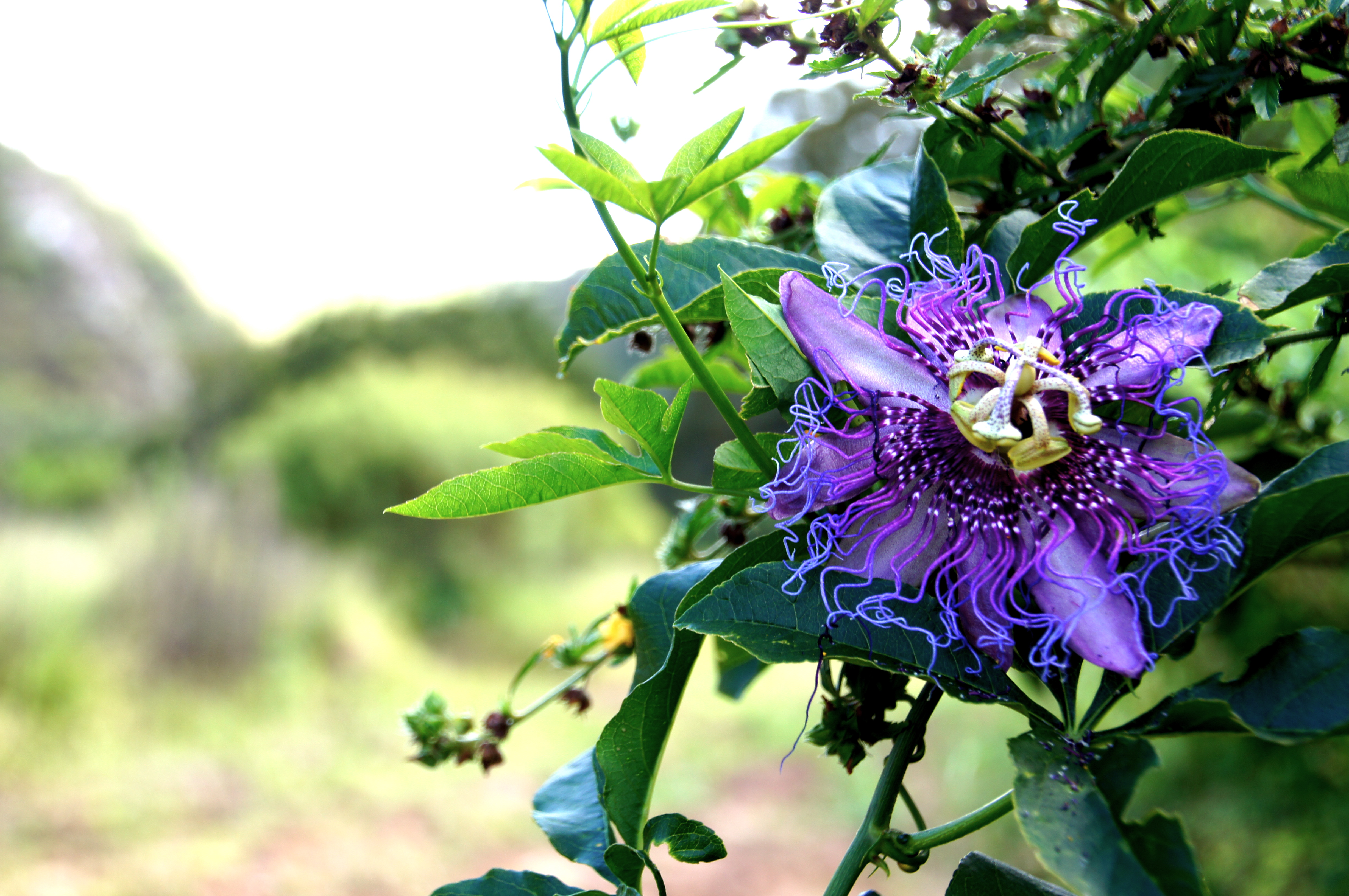 Puchea, or Passion Fruit growing in El Sauce, Samaipata, Bolivia